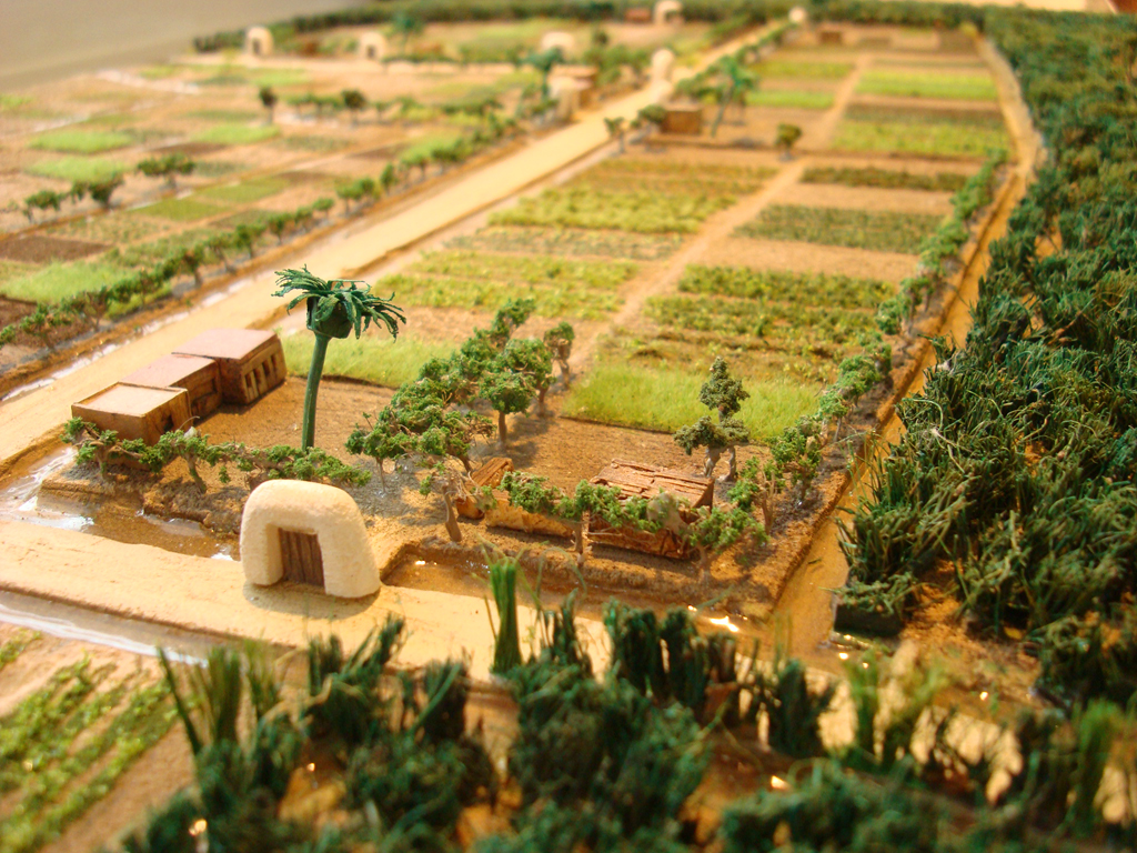 Photograph of the model in the Ses Feixes Visiter Centre near Ibiza Town